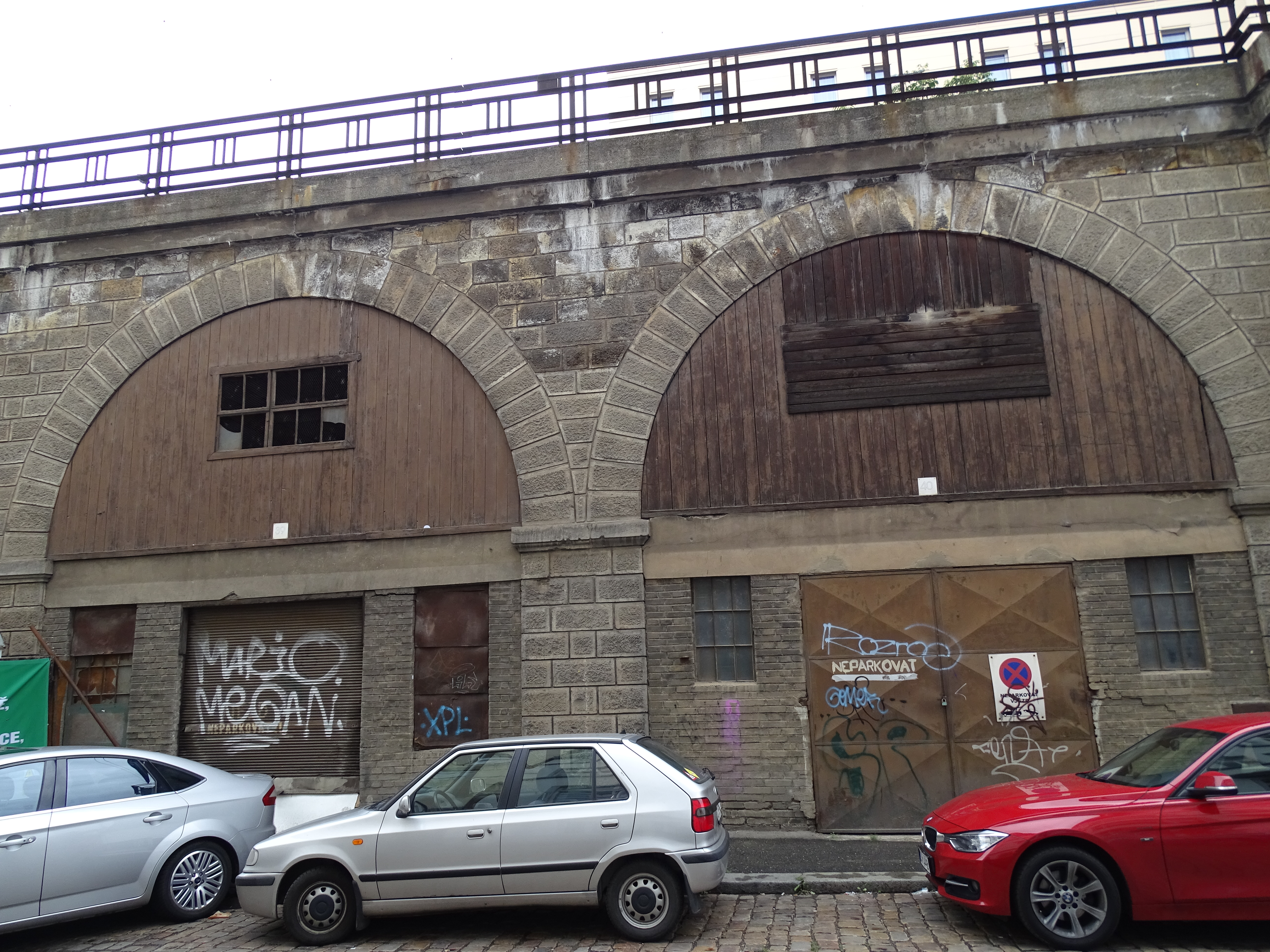 Prague-Karlín, Czech Republic. Prvního pluku street, a railway viaduct.